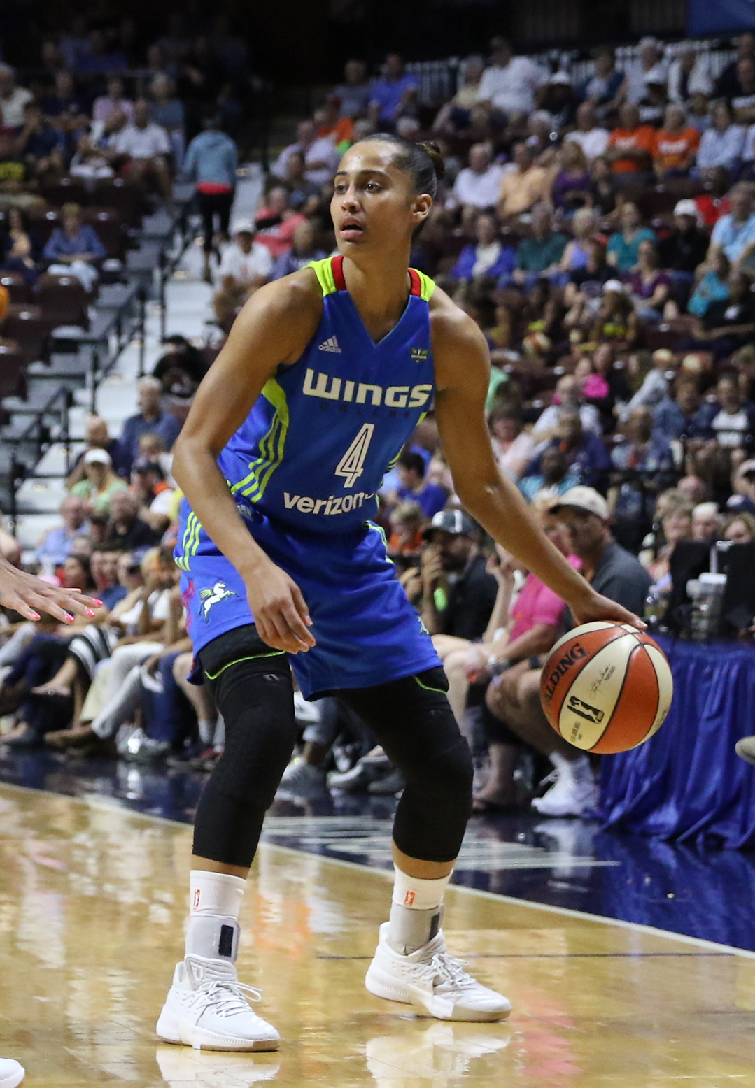 Skylar Diggins-Smith dribbles in a 2017 WNBA regular season game